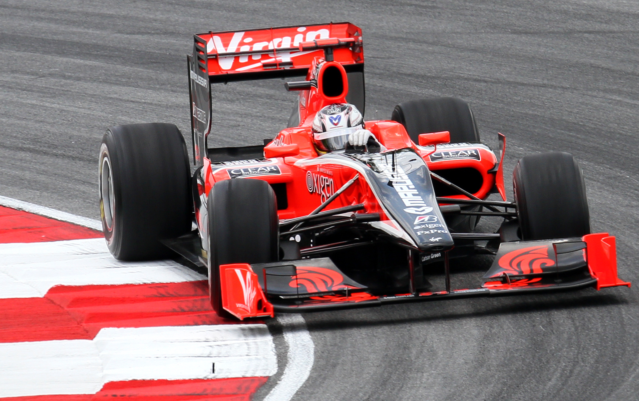 Formula One 2010 Rd.3 Malaysian GP: Timo Glock (Virgin) during Saturday 3rd Free Practice session.